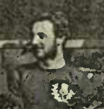 William Cross from a picture of the first Scotland Rugby side in 1871.